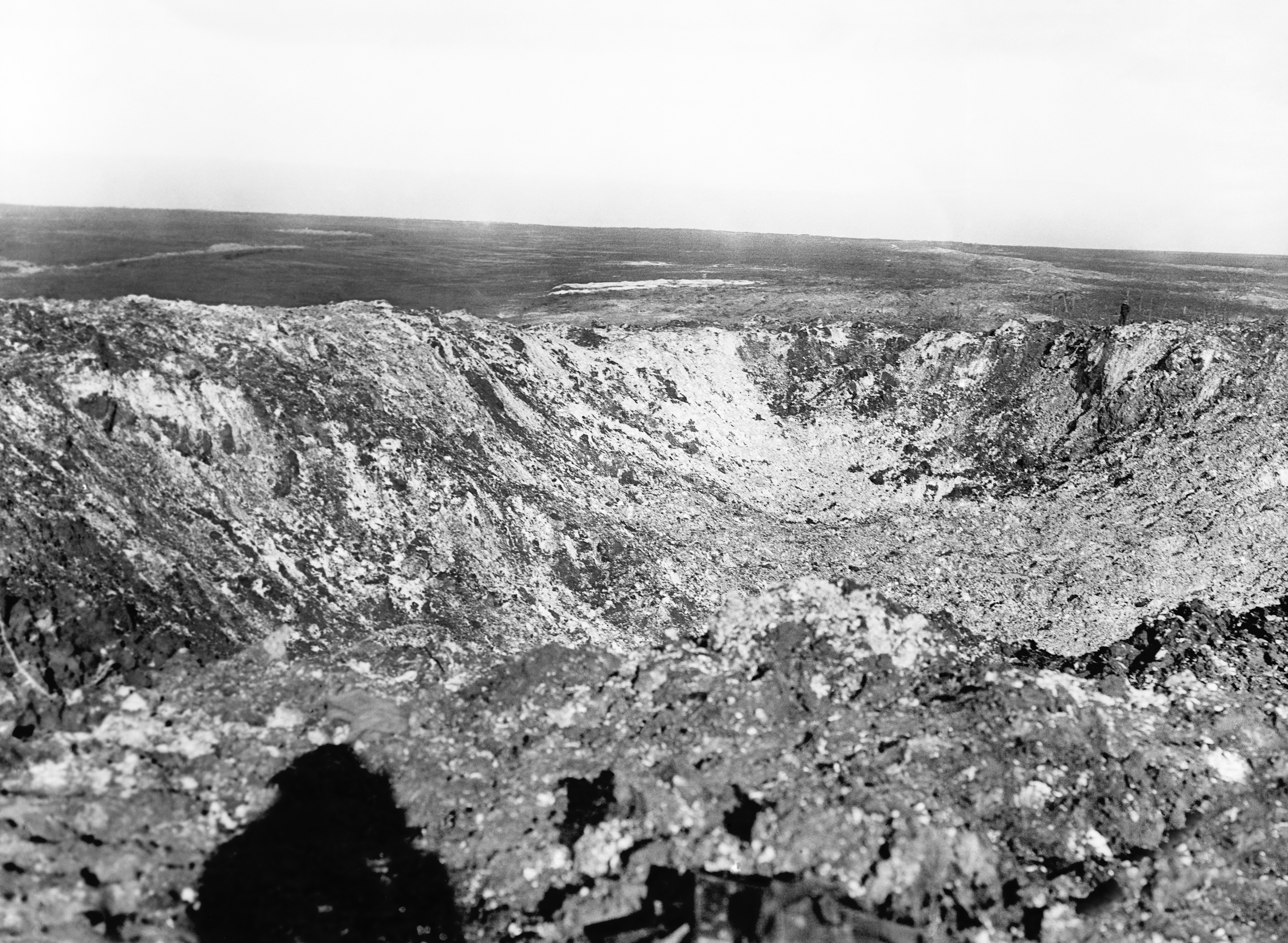 Crater formed by a mine blown up on 1st July 1916, beneath Hawthorn Ridge, Beaumont Hamel, France.